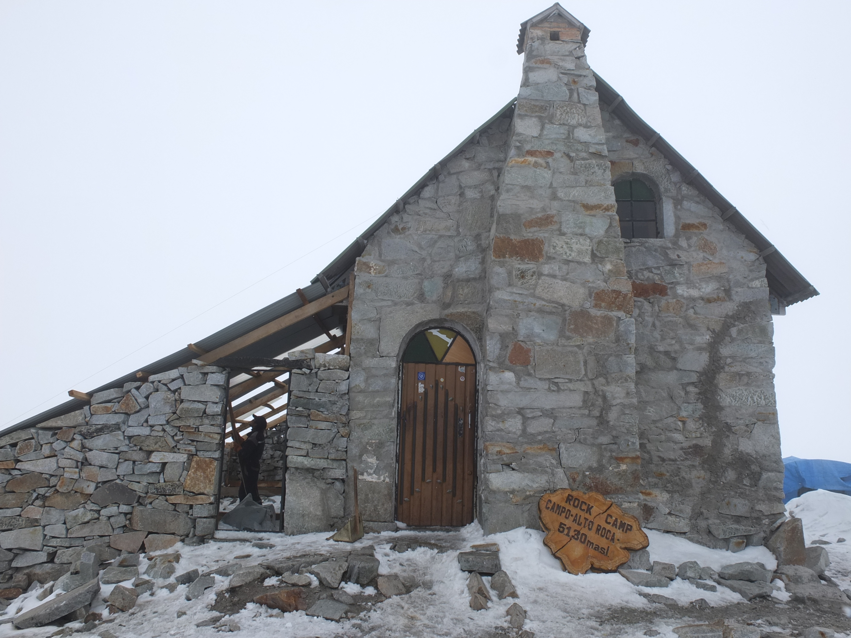 Mountain hut "Rock Camp" (Campo Alto Roca) at the Huayna Potosí, Bolivia, 2013.